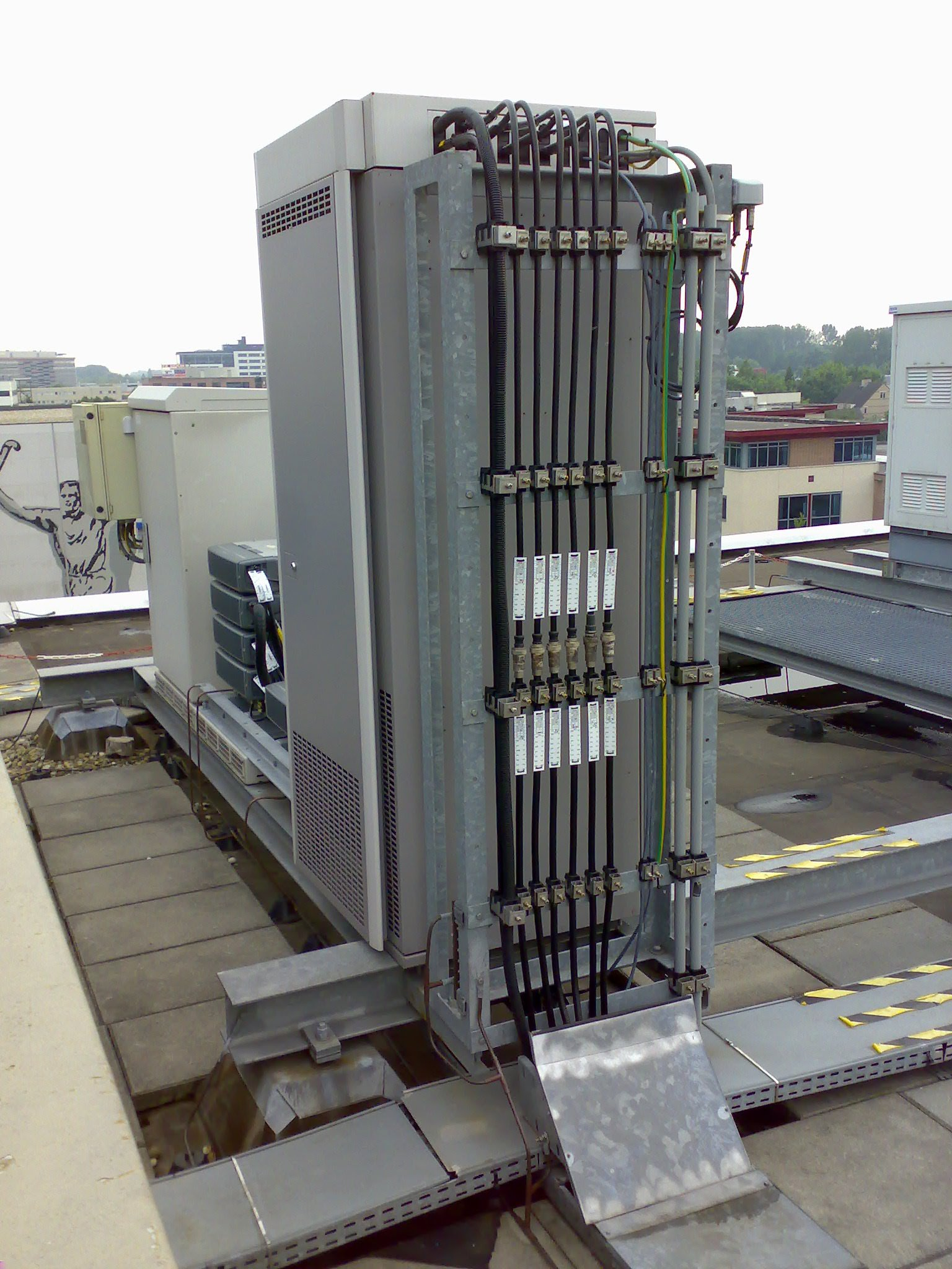 UMTS-transmitter on the roof of a building in Katwijk (NL) It is not a UMTS cabinet, This is a Nokia UltraSite Cabinet. Behind the cabinet there are stacked NSN Flexi modules.